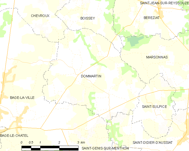 Map of French commune: Dommartin Map commune FR insee code 01144.png